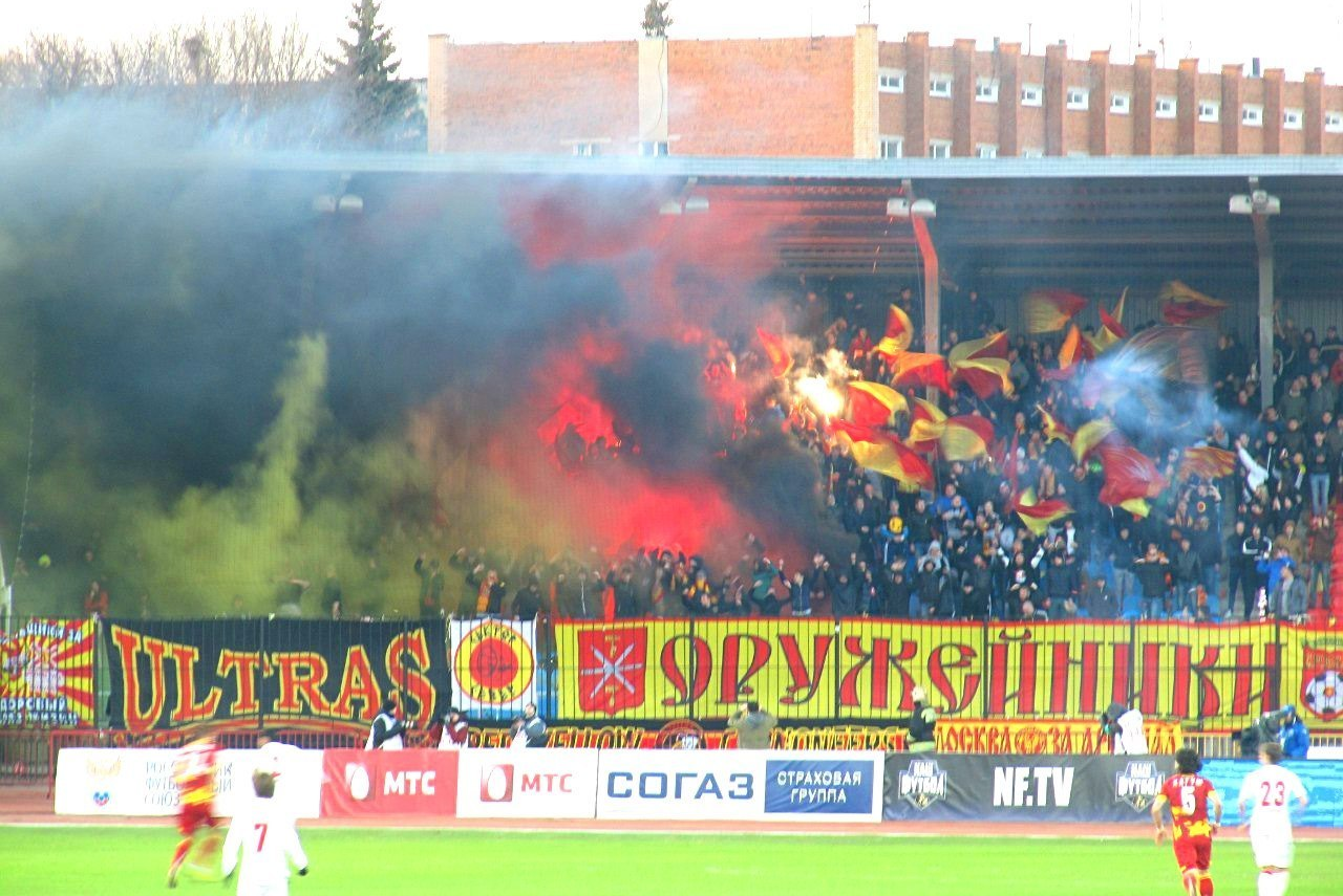 Ультрас тульского Арсенала